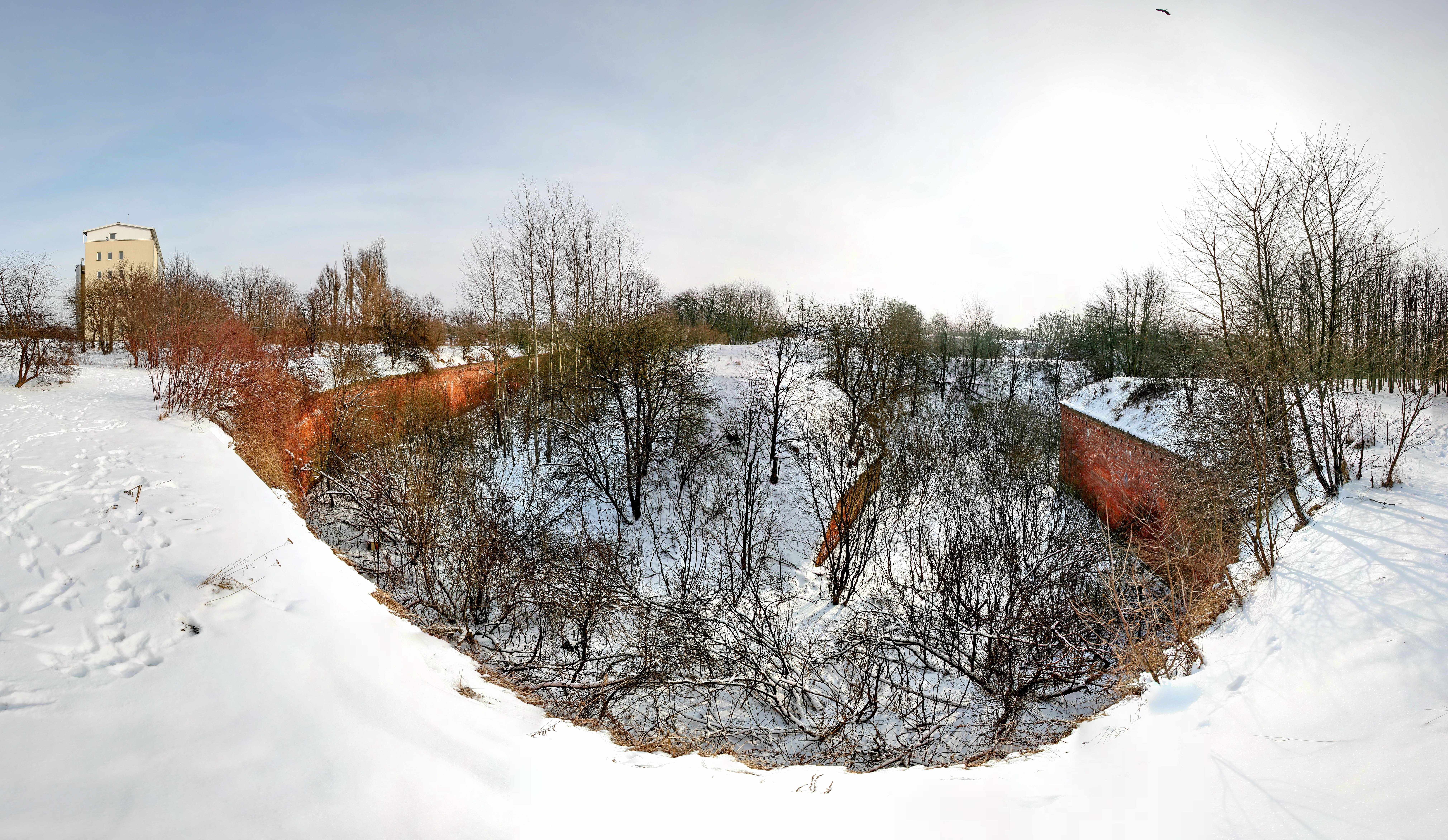 Kaunas Fortress' VI fort